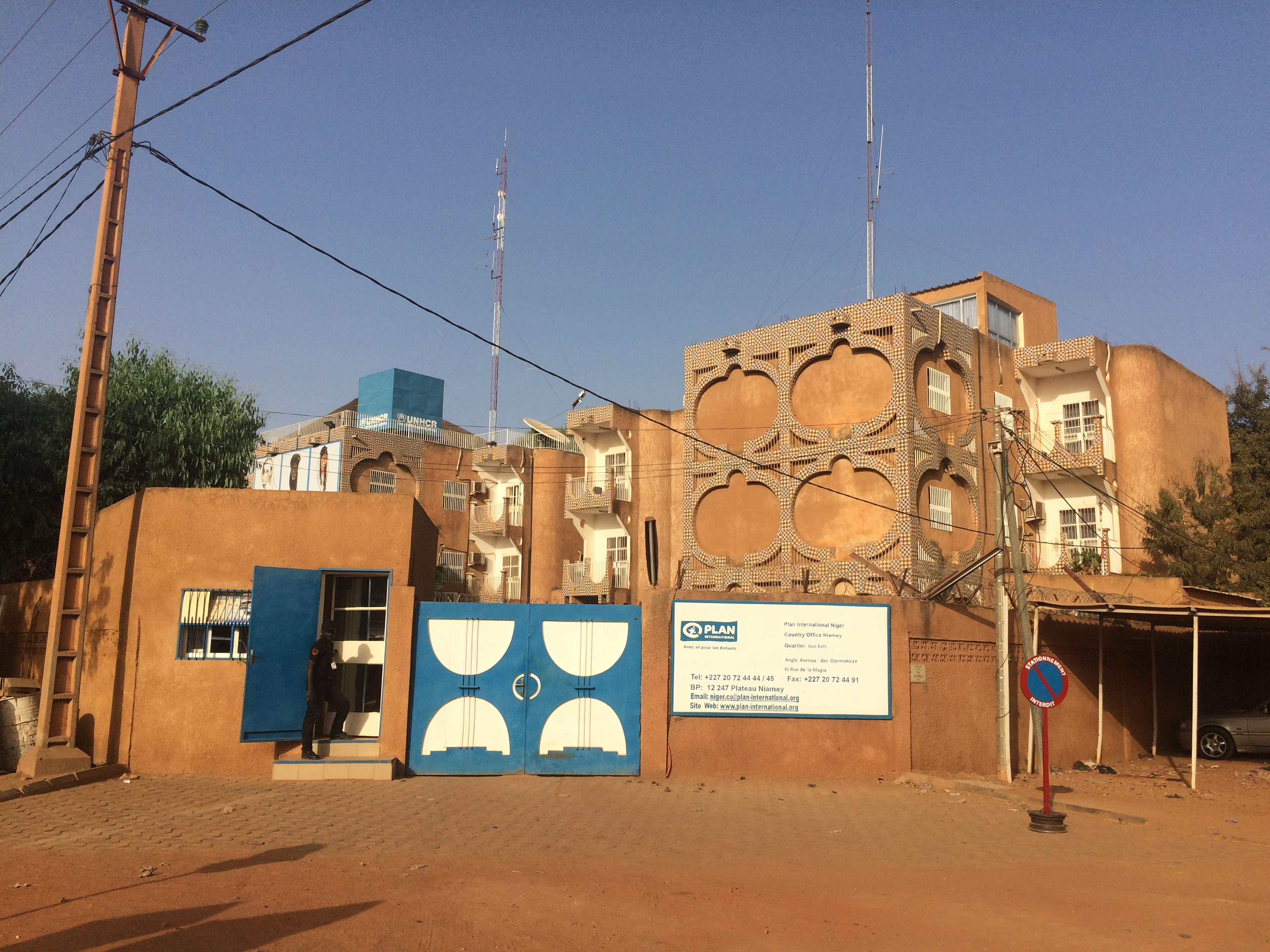 The Niger country office of Plan International (an independent organisation which works to advance children’s rights and equality for girls) in Niamey (Niger), on the Rue de la Magia (corner with the Avenue de Djermakoye/Zarmakoy).